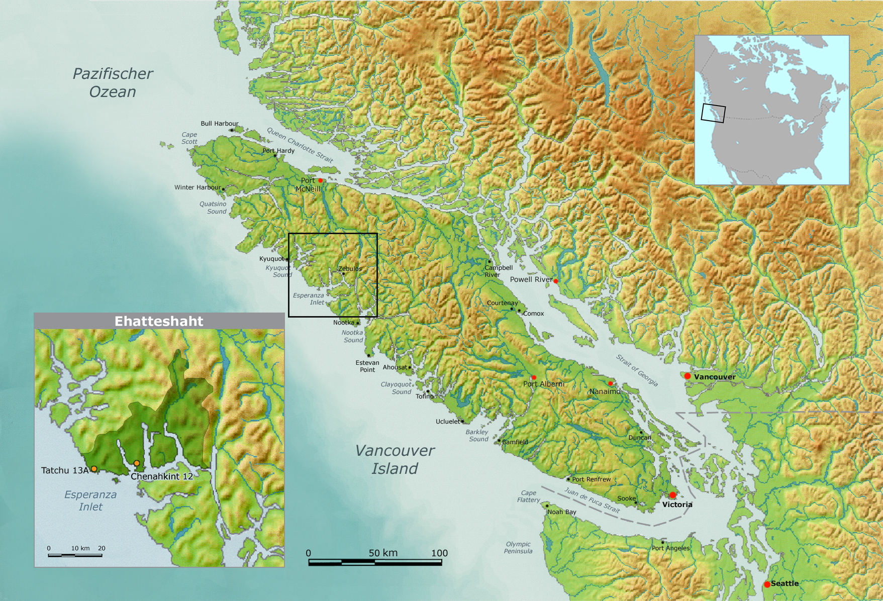 Map of Ehatteshaht tribal territory